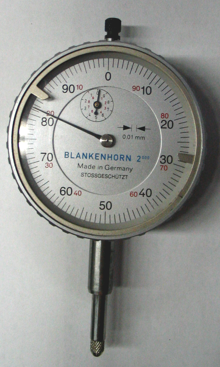 Dial Indicator Gauge / Messuhr